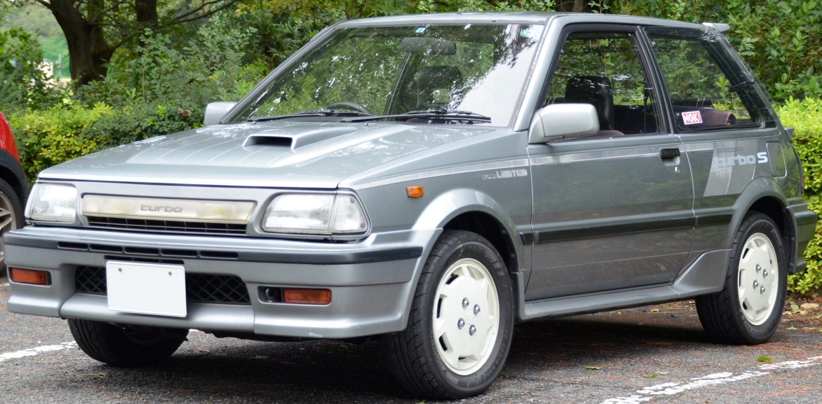 Toyota Starlet Turbo S Super Limited